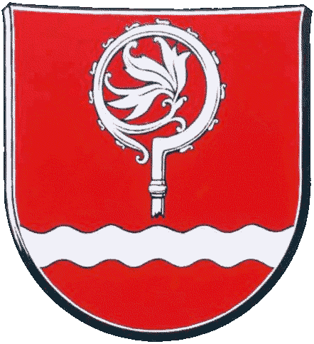 Coat of arms of Klausdorf, part of Schwentinental Blasonierung: In Rot ein silberner Krummstab, dessen Schaft abgebrochen ist, über einem silbernen Wellenbalken im Schildfuß.